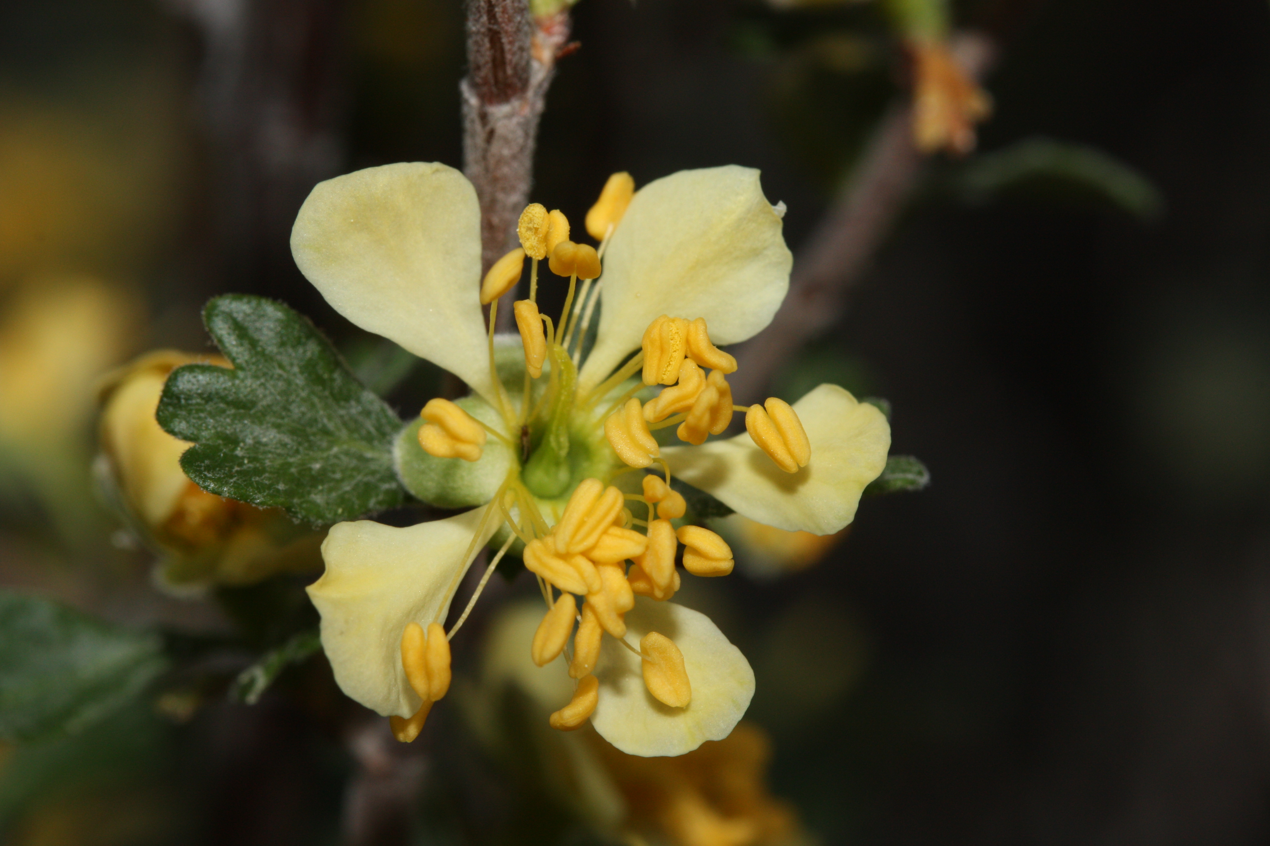 Antelope Bitterbrush, Antelope-brush